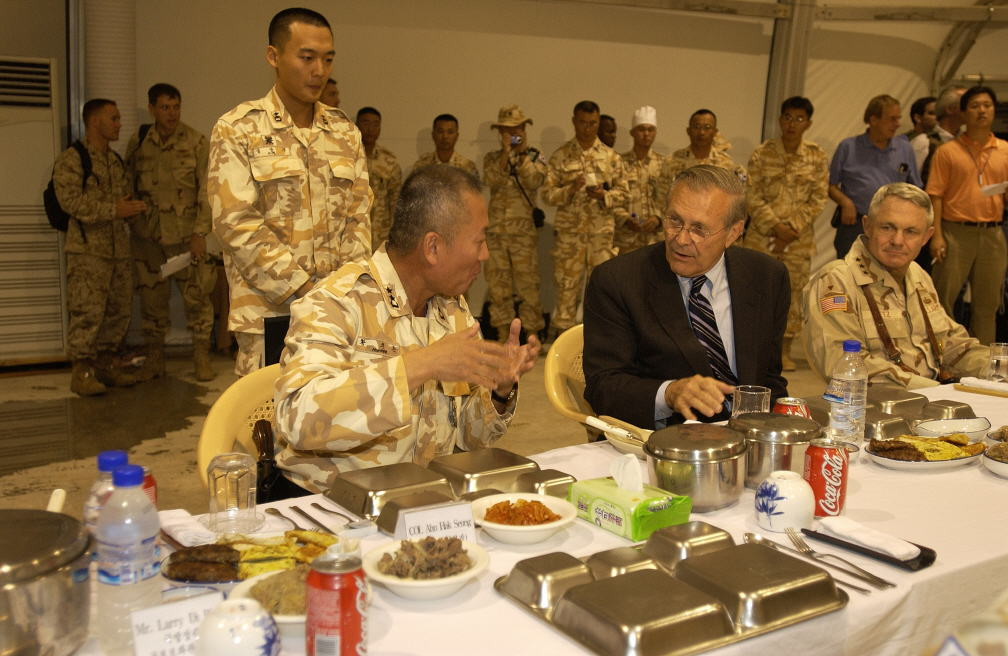 Secretary of Defense Donald H. Rumsfeld (2nd from right) has dinner with the Commander of the Republic of Korea Division Maj. Gen. Hwang Ui-don in Irbil, Iraq, on Oct 10, 2004. Rumsfeld is in Iraq to show support for the coalition troops and meet with Iraqi officials.